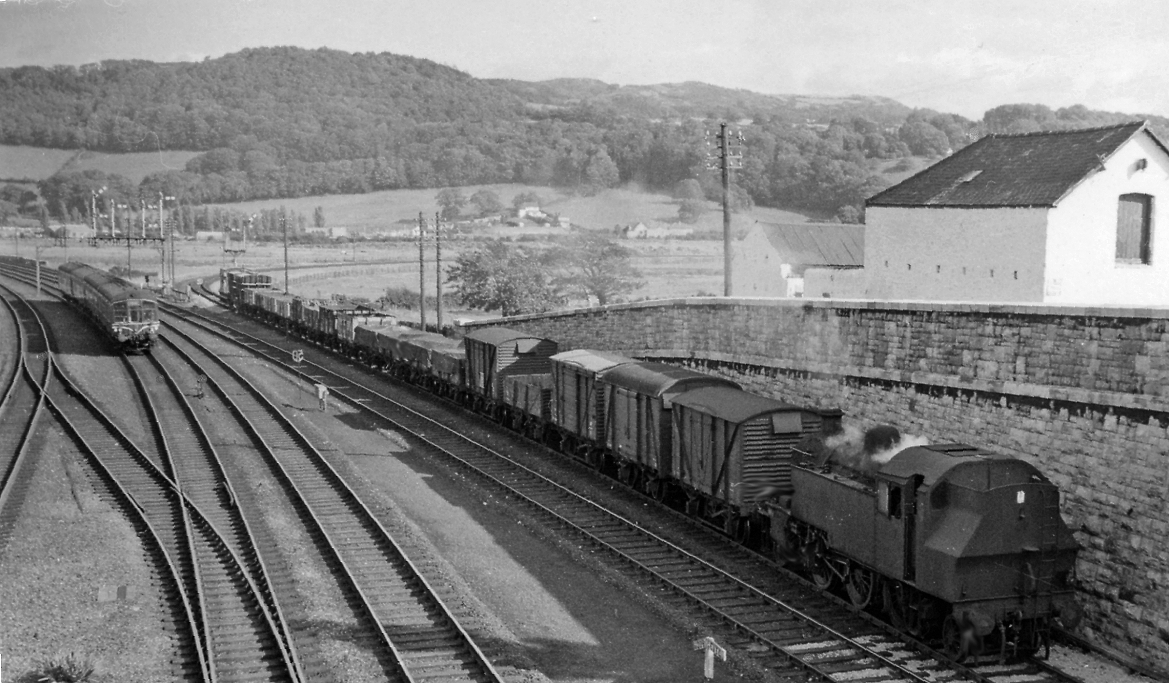 Goods train coming off the Conwy Valley branch at Llandudno Junction. View eastward, towards Colwyn Bay and Chester on the ex-LNW North Wales main line, Blaenau Ffestiniog on the branch. The locomotive (running bunker-first) is LMS Ivatt 2MT 2-6-2T No. 41235 (built 9/49, withdrawn 11/62). A DMU recedes eastward on the main line.